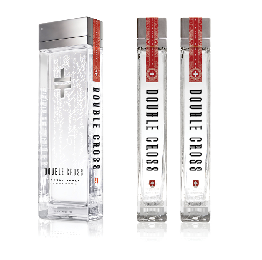 The Double Cross Vodka Bottle on a white background. Front and side view.